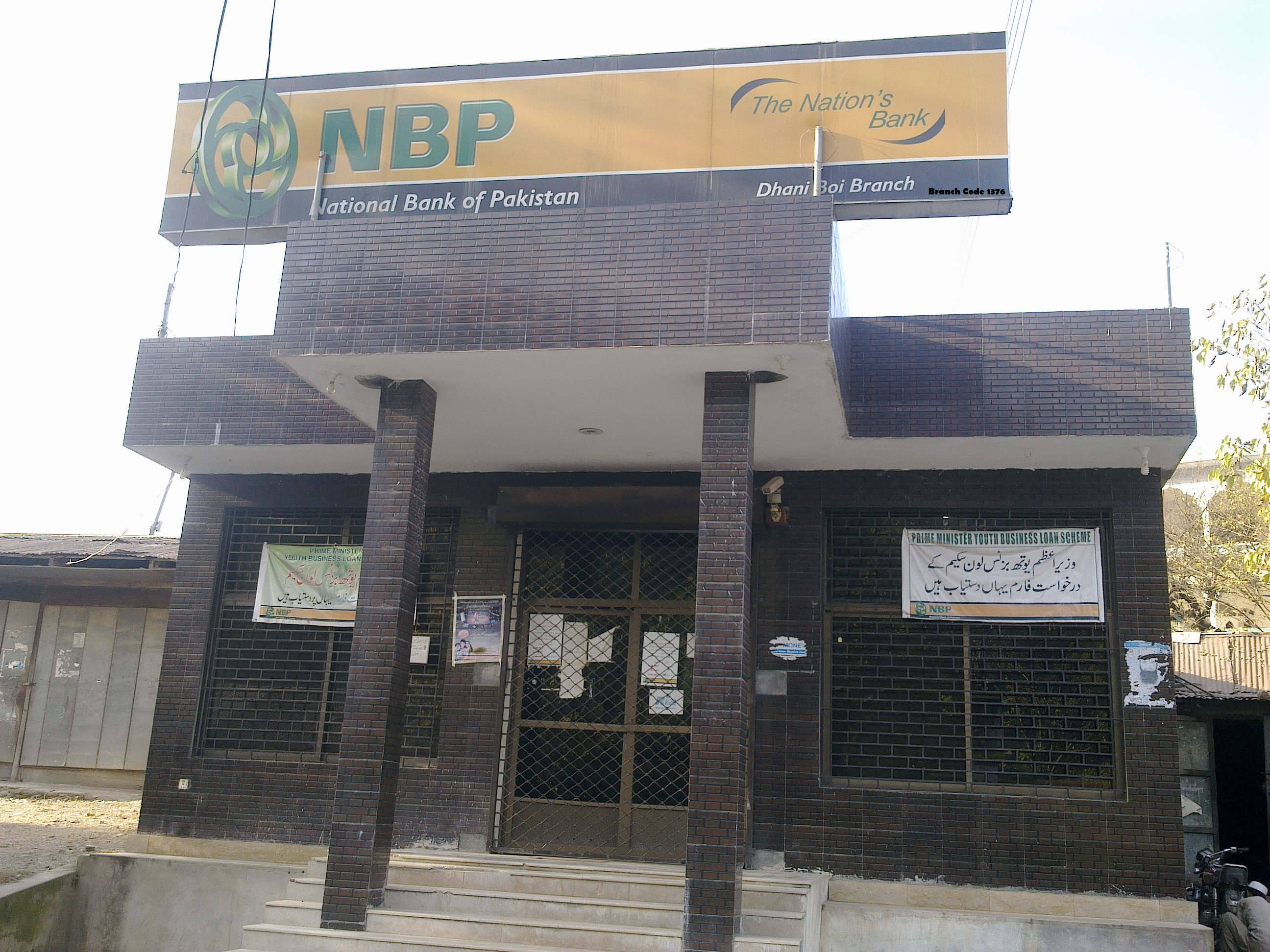 The Only Bank in Union Council Boi, situated at Main Boi Bazar.